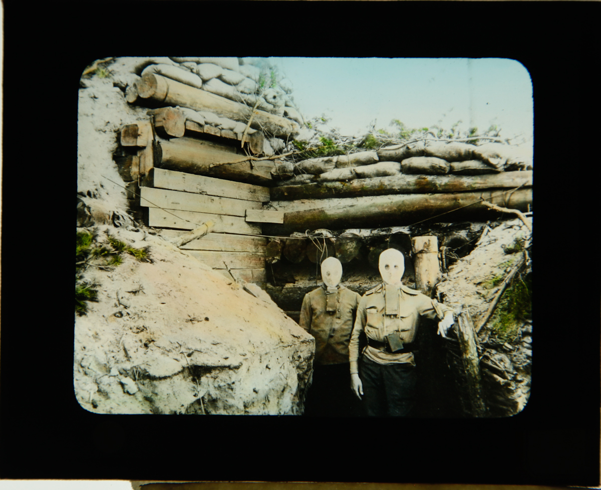 Soldiers in trench wearing gas masks 1917